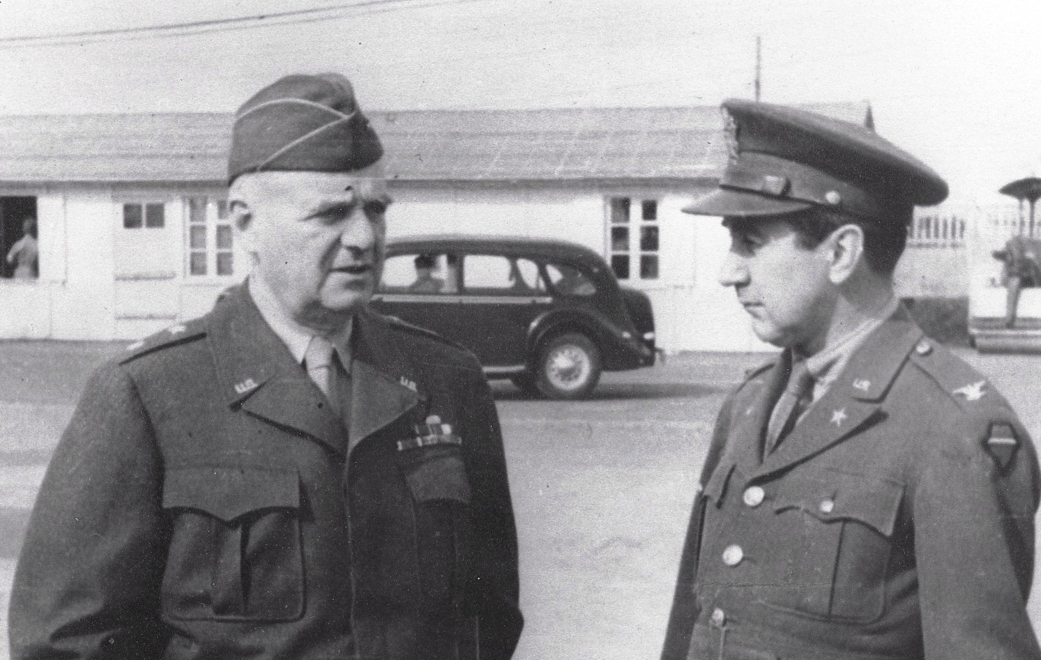 Maj Gen William J 'Wild Bill', Director, OSS and Colonel William Harding Jackson (ca 1945)